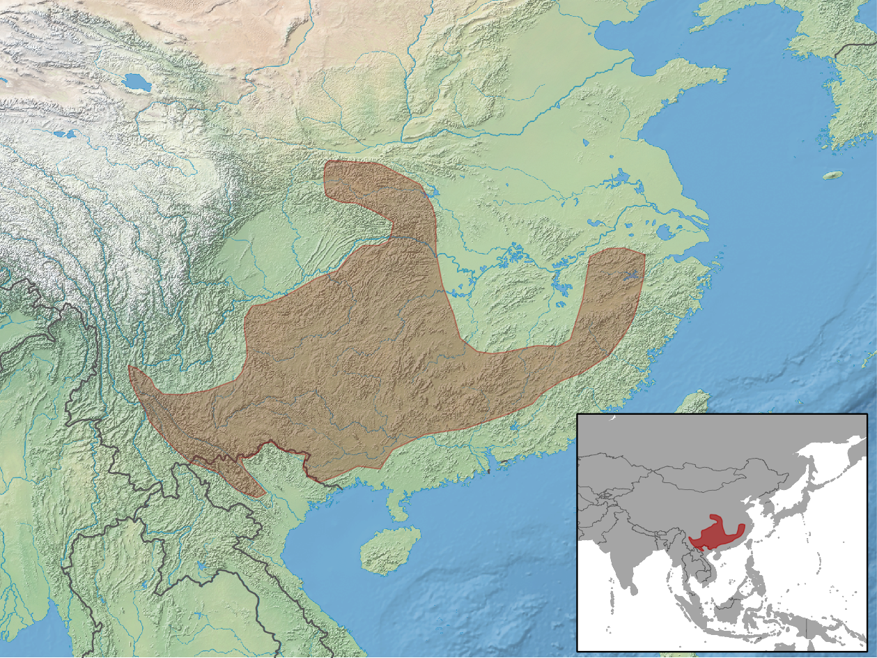 distribution of Typhlomys cinereus